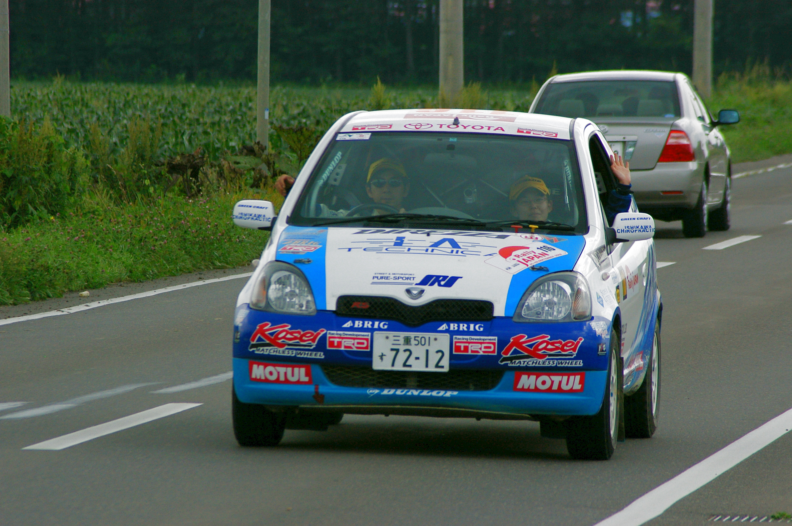 TOYOTA Vitz(Yaris) Gr.A rallycar at RallyJapan 2006 No.116.